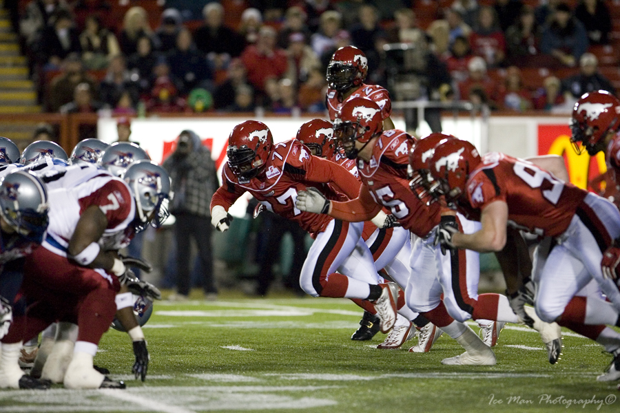 Montréal alouettes vs Calgary Stampeeders october 2007